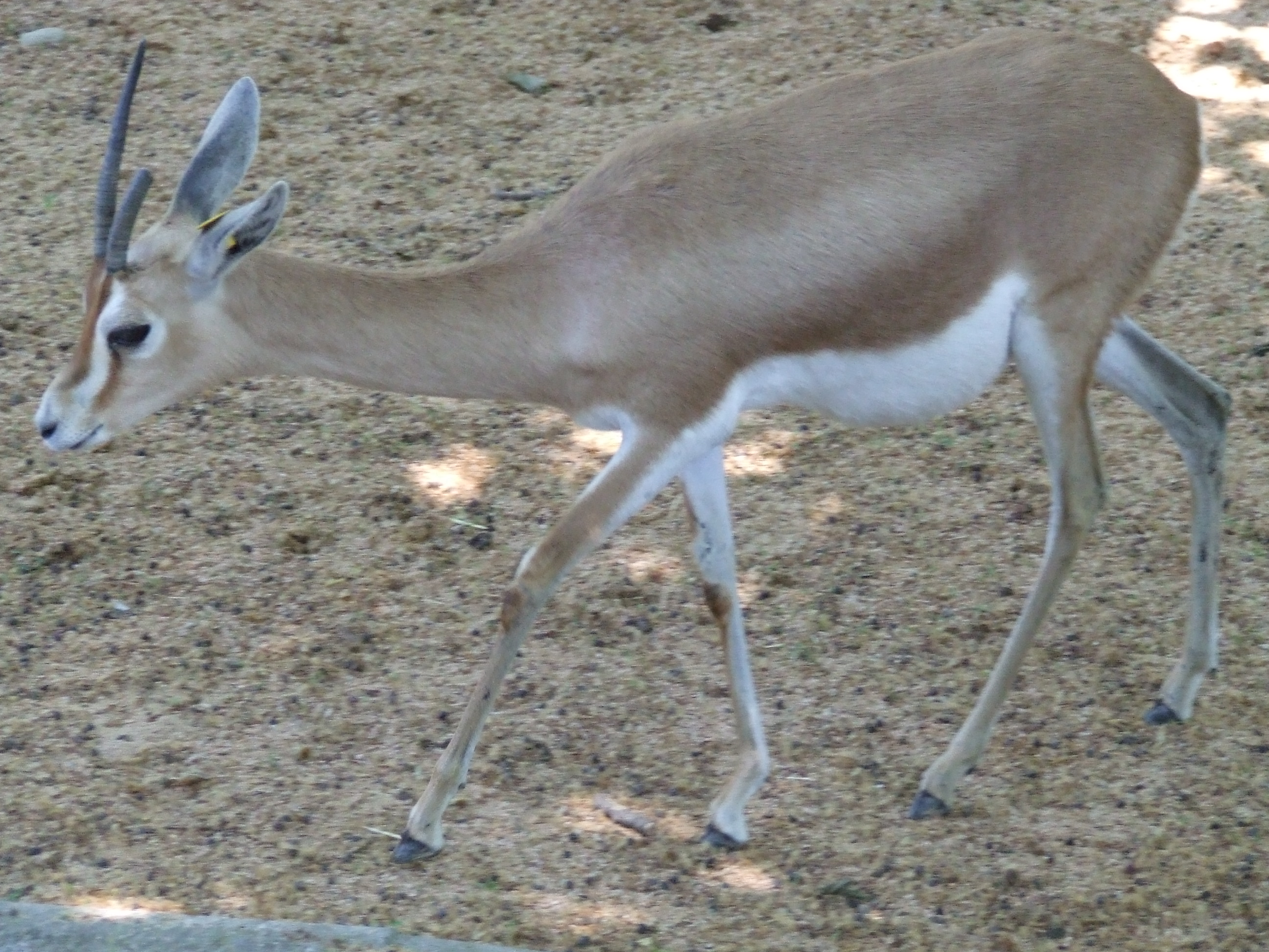 Saharawi dorcas gazelle (Gazella dorcas neglecta) at Barcelona Zoo (Catalonia, Spain).